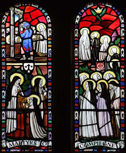 Our Lady of Mount Carmel Church, Quidenham, Norfolk - Windows Two of 16 windows in the clerestory